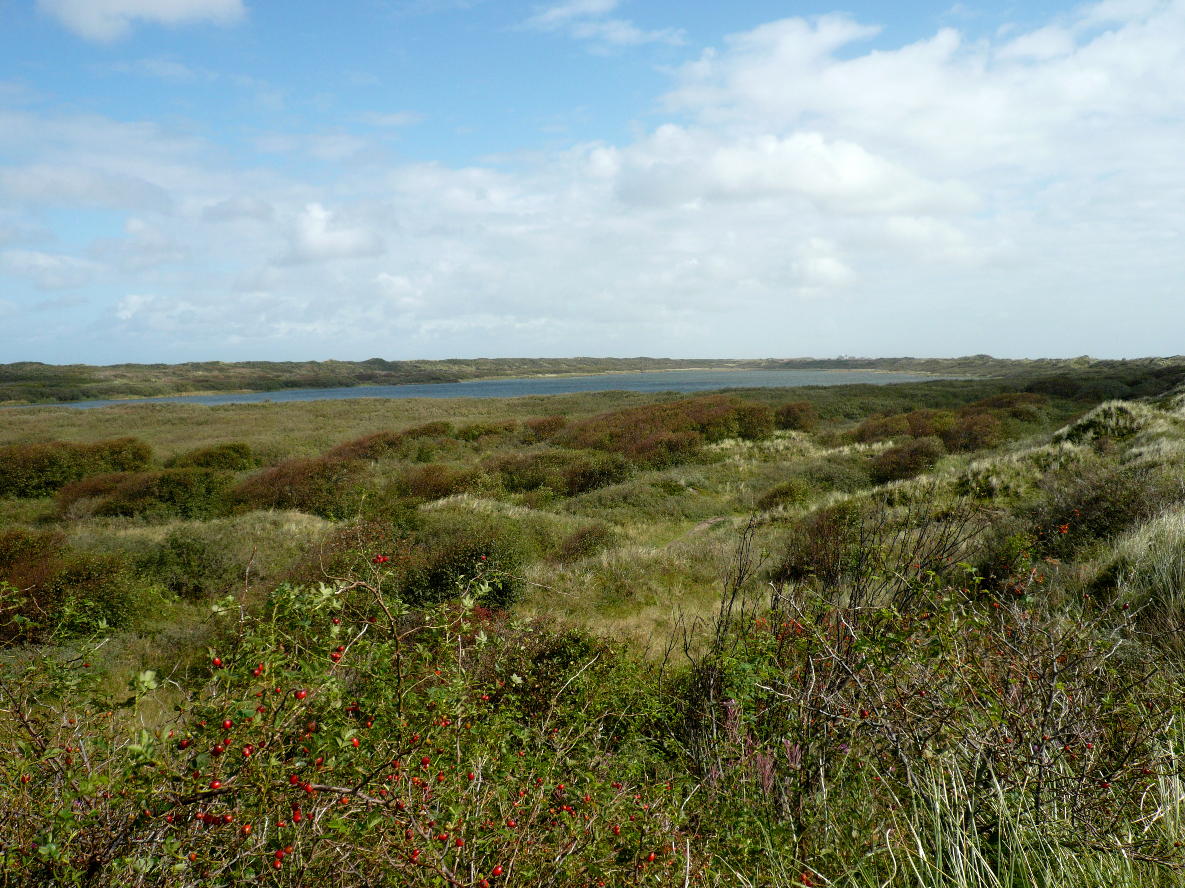 Lake Hammersee on Juist island